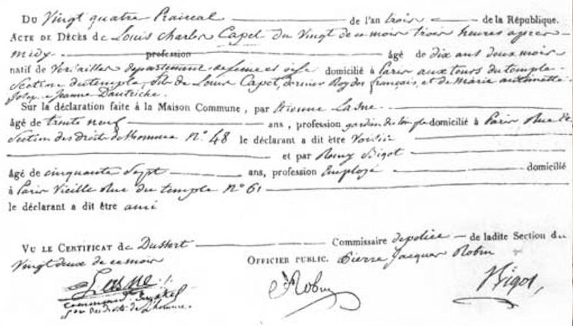 Death certificate of Louis XVII in Paris, 24 prairial III (12 June 1795)